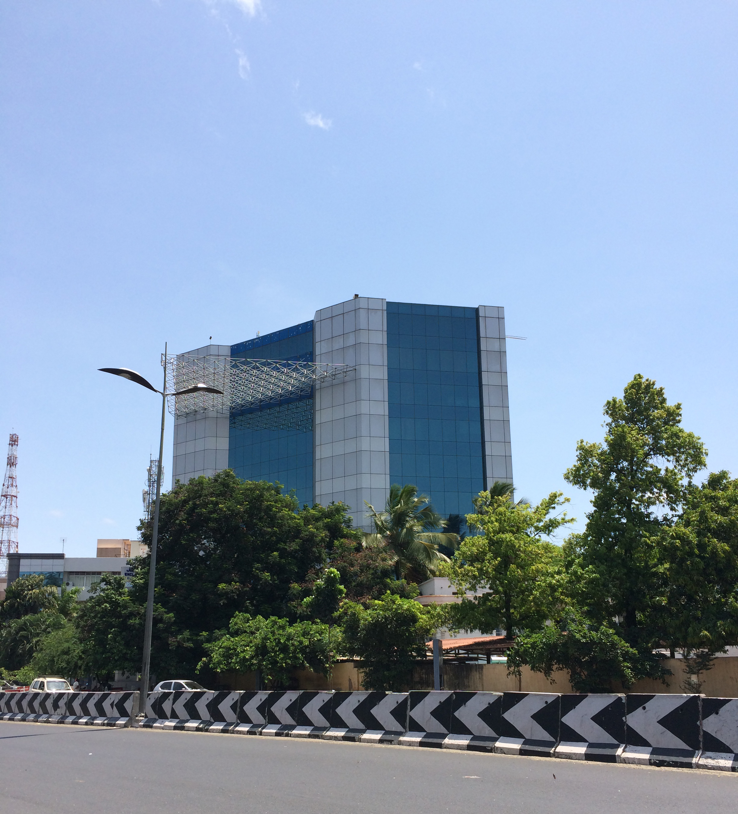 Jaya Enclave,a commercial office comples in Avinashi Road, Coimbatore